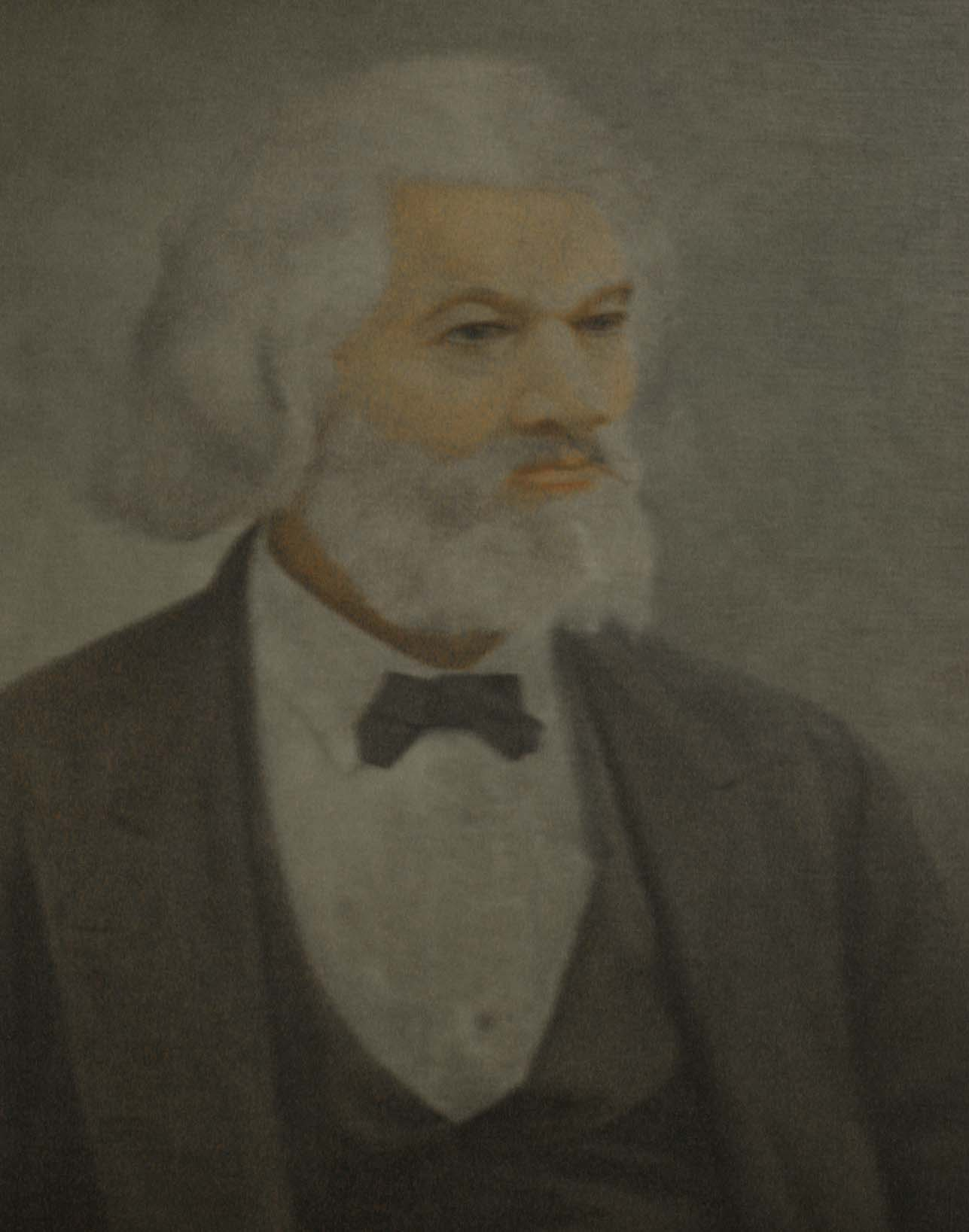 Portrait of Frederick Douglass in the DC Recorder of Deeds Building. Frederick Douglas was the first recorder of deeds for the District of Columbia Frederick Douglass (February 141, 1818 â€“ February 20, 1895) was an American abolitionist, editor, orator, author, statesman and reformer. Called "The Sage of Anacostia" and "The Lion of Anacostia," Douglass was among the most prominent African Americans of his time, and one of the most influential lecturers and authors in American history.